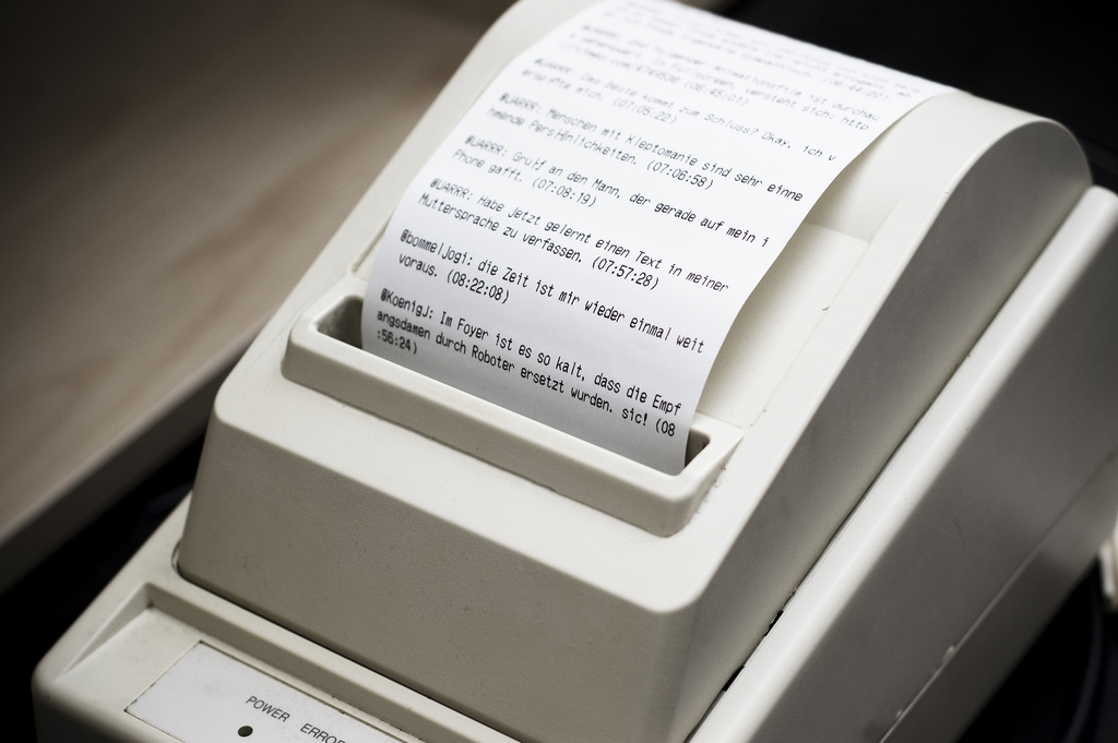 Citizen CBM231 receipt printer printing a Twitter Timeline